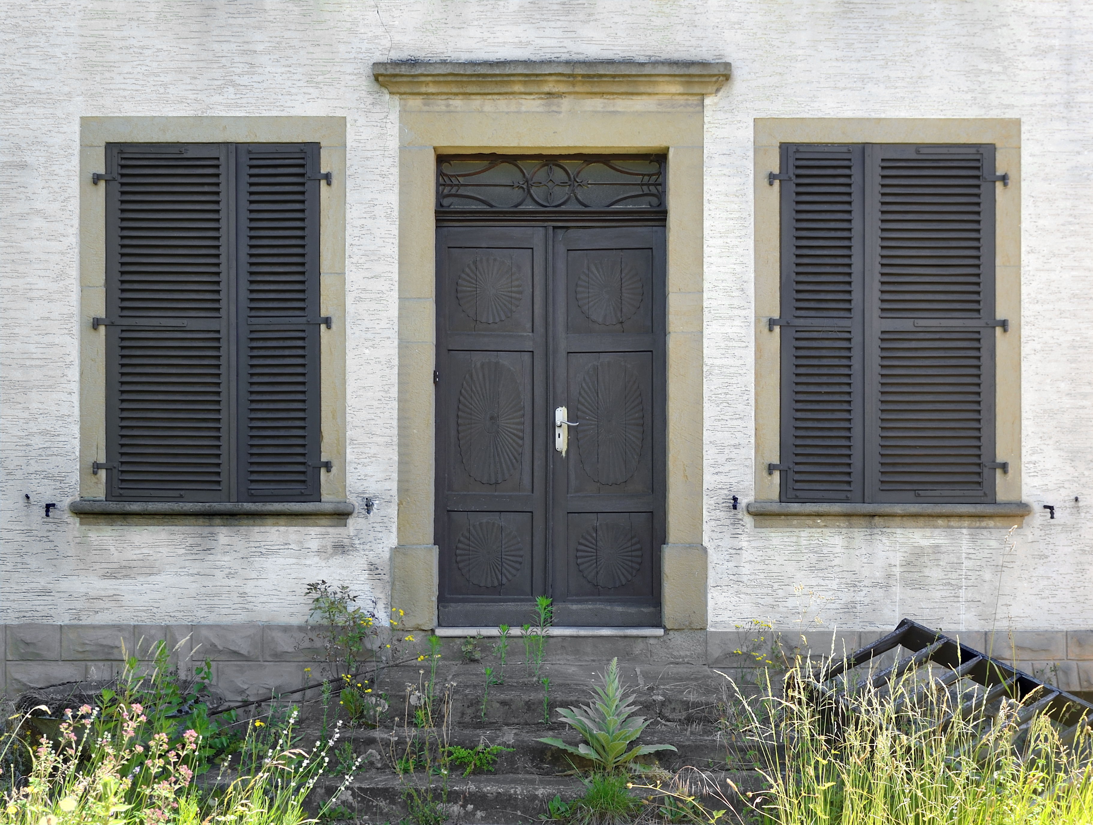 The so-called Thyes-house, erected around 1830, at 34, rue Principale, Lintgen, Luxembourg. The house will be demolished in 2014 to be replaced with a residential building.